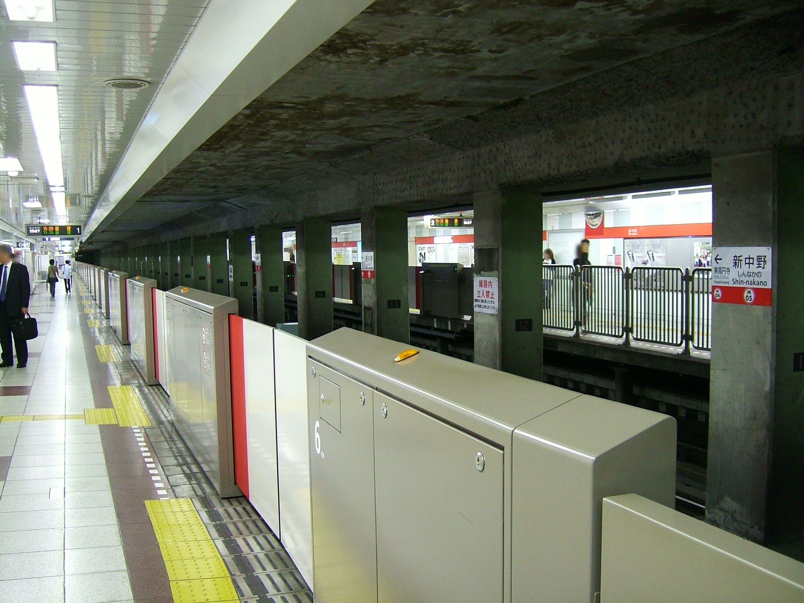 Shin-Nakano Station platform (Tokyo Metro Marunouchi Line)